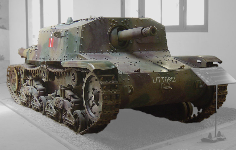 Semovente da 75/18 (M40 or M41) on display at the Musée des Blindés in Saumur. The picture taken August 8, 2006.